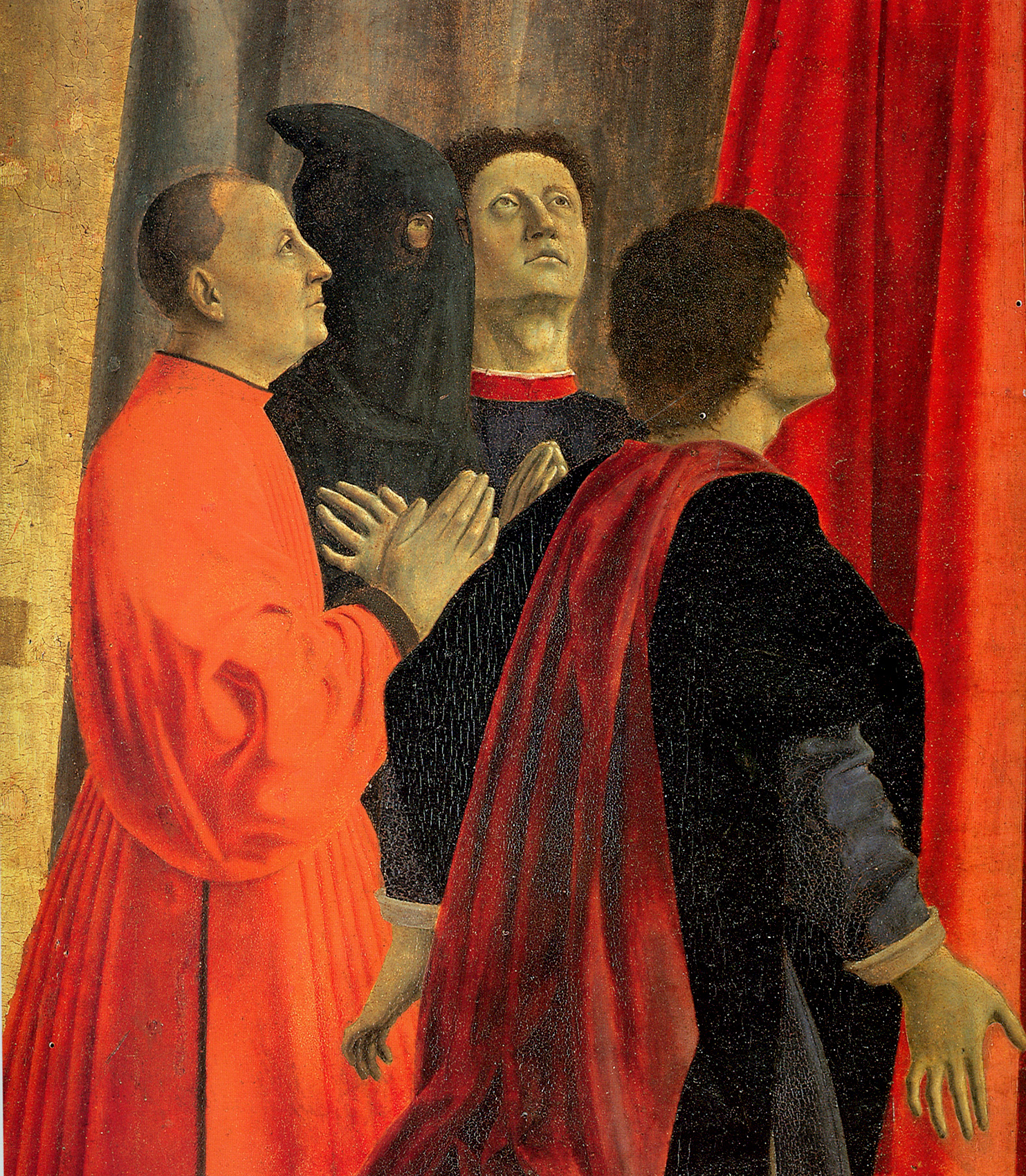 Polyptych of Misericordia: Madonna of Misericordia Piero della Francesca Tempera and oil on panel, 134 x 91 cm Sansepolcro, Museo Civico